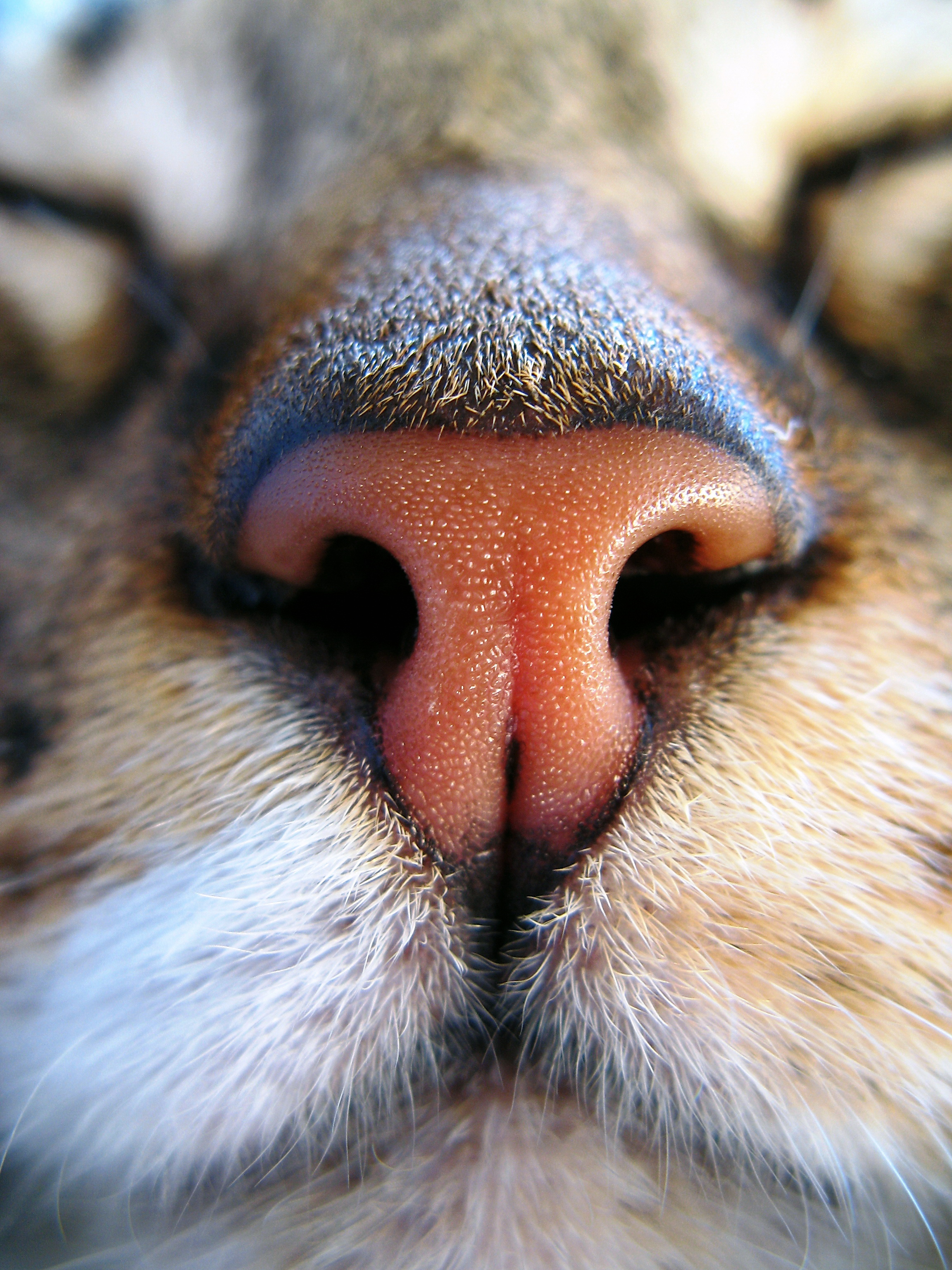 Detail of the nose of a cat